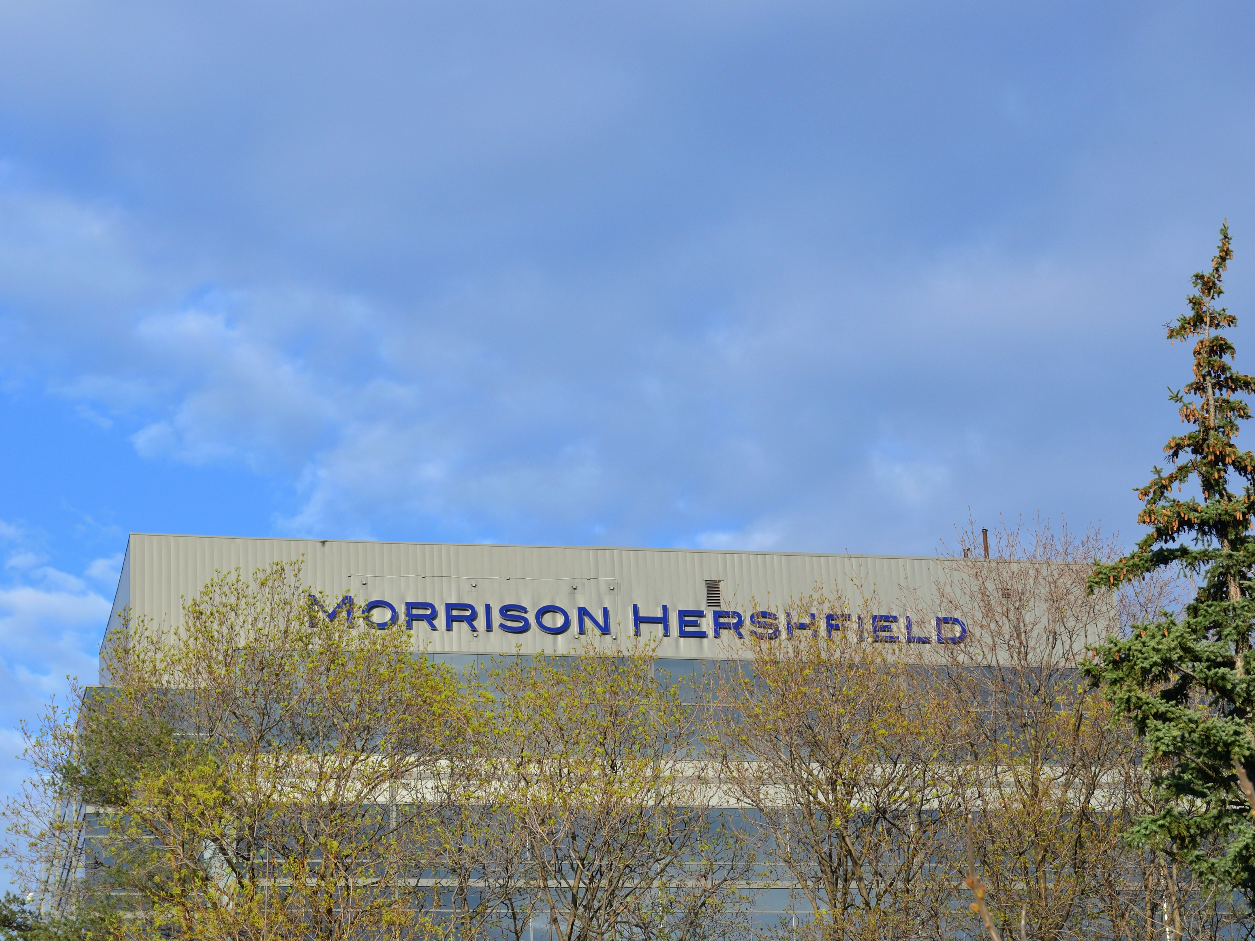 Morrison Hershfield Markham office - Address: 125 Commerce Valley Drive, Markham, ON L3T 7W4